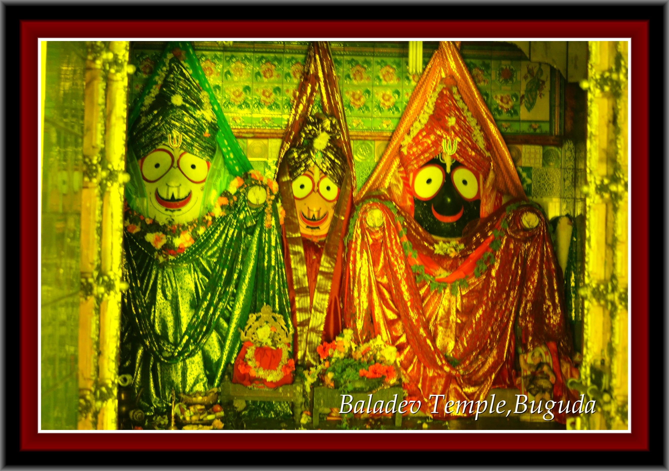 Three deities in Baladev Temple, Buguda, Ganjam